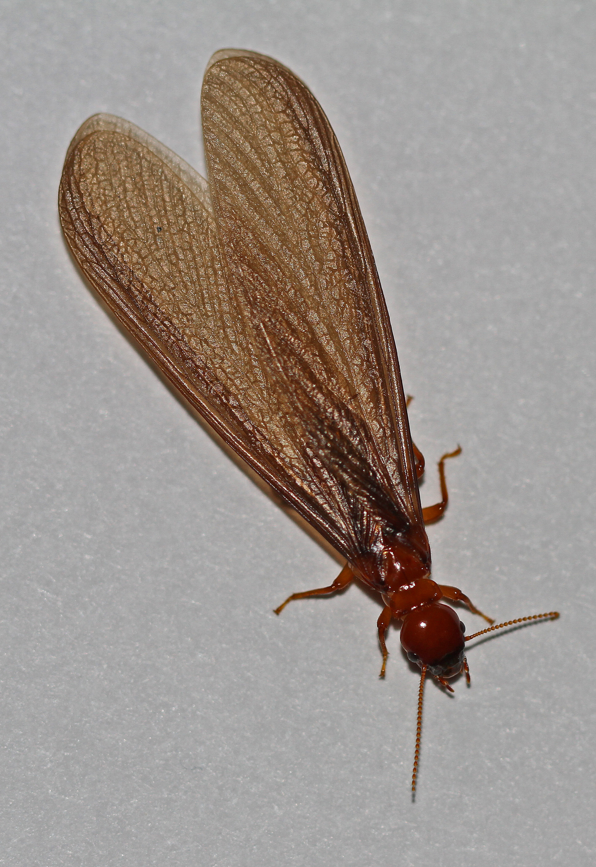 Pacific Coast Dampwood Termite - Zootermopsis angusticollis, Delta, British Columbia